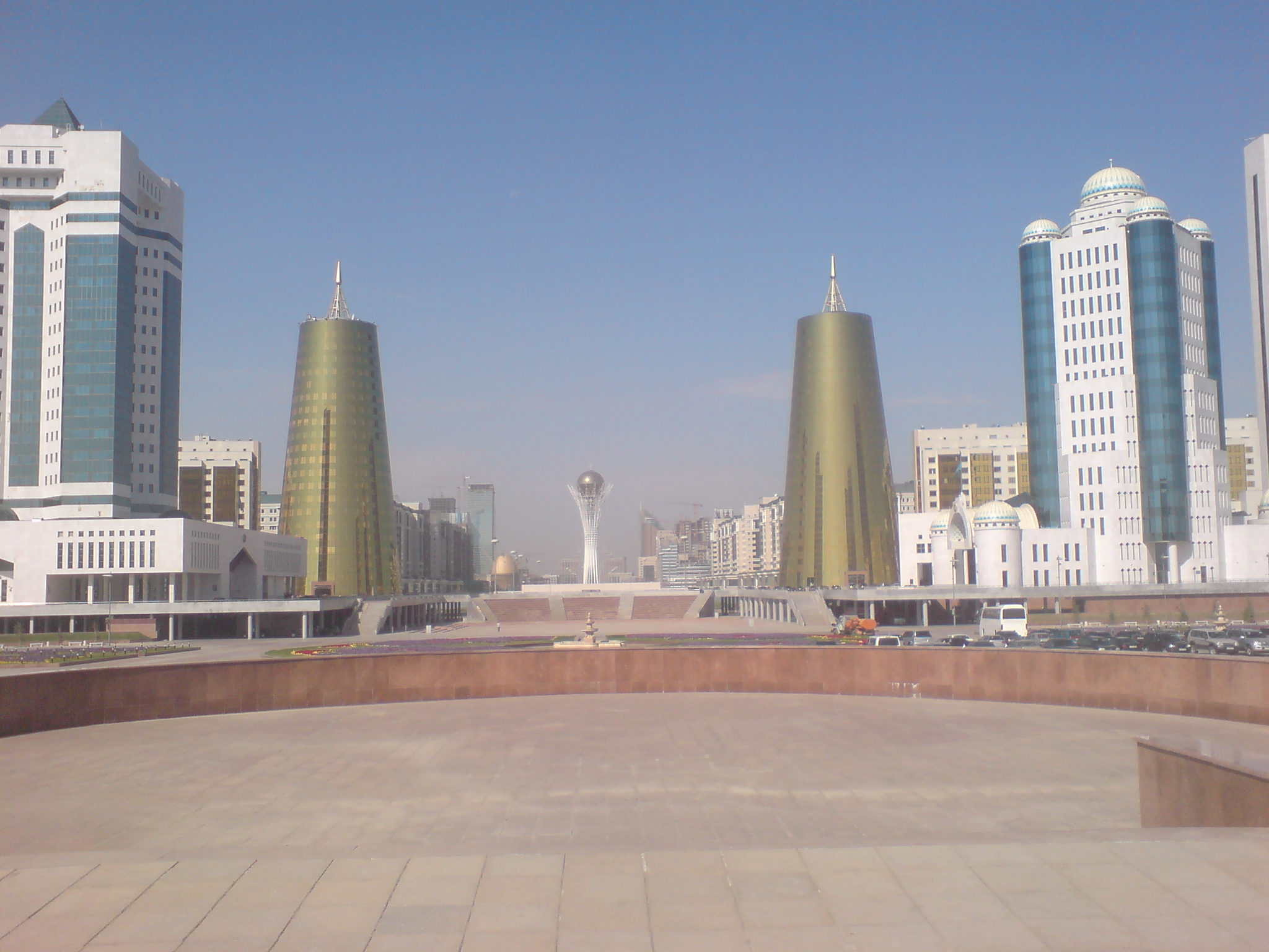 Astana city